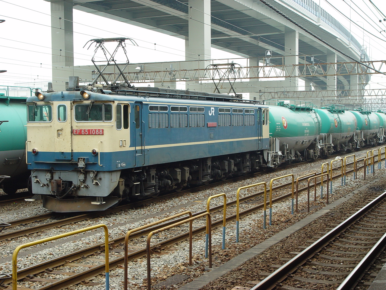 JR Freight Class EF65-1000 electric locomotive EF65 1088 next to Negishi Station on a train of TaKi 1000 tank wagons